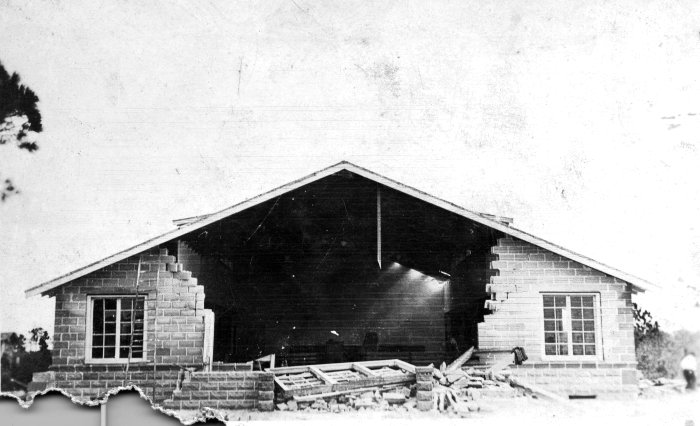 An underconstruction church in New Port Richey, Florida, damaged in the 1921 hurricane